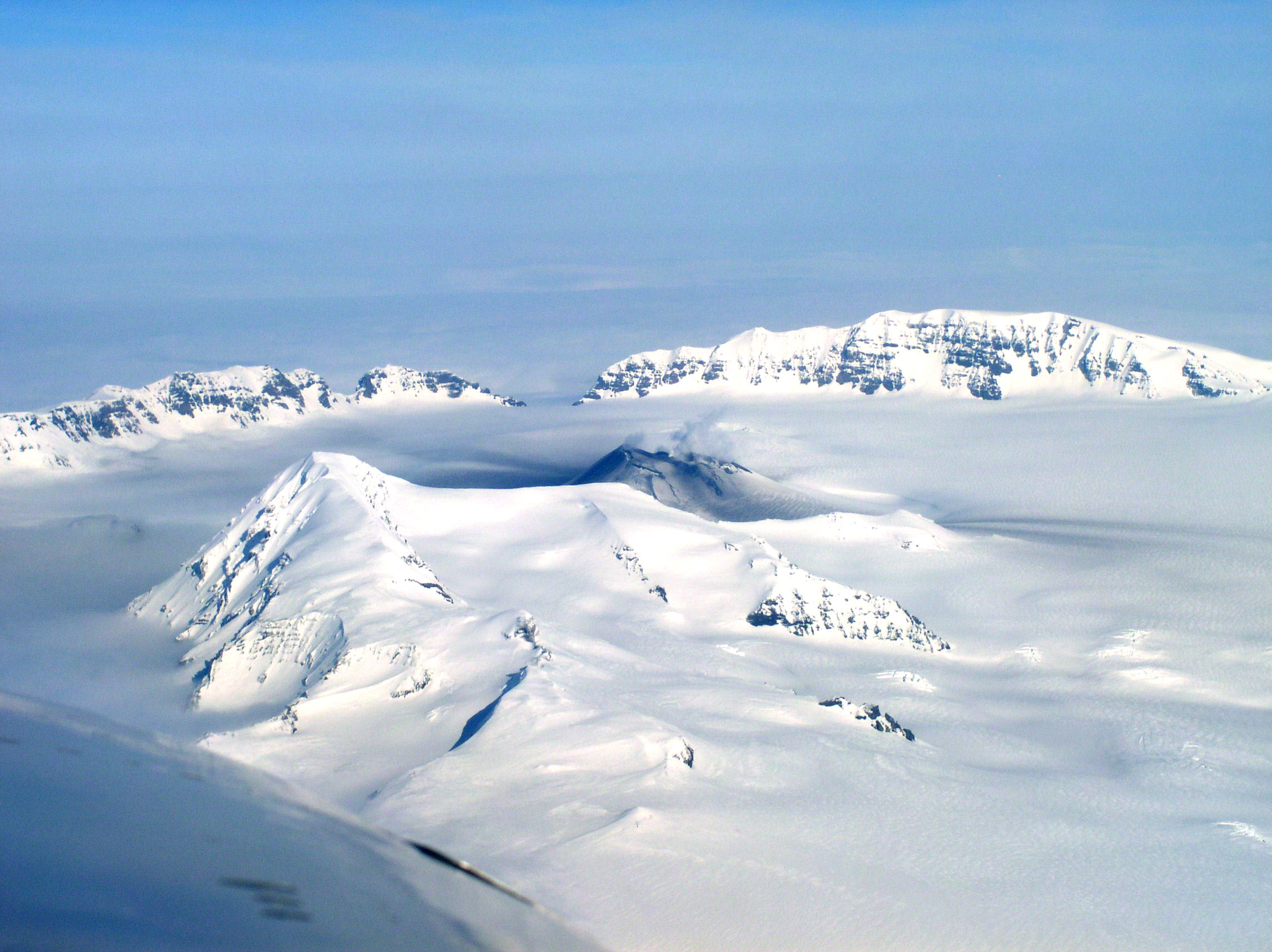 Veniaminof's intracaldera cones